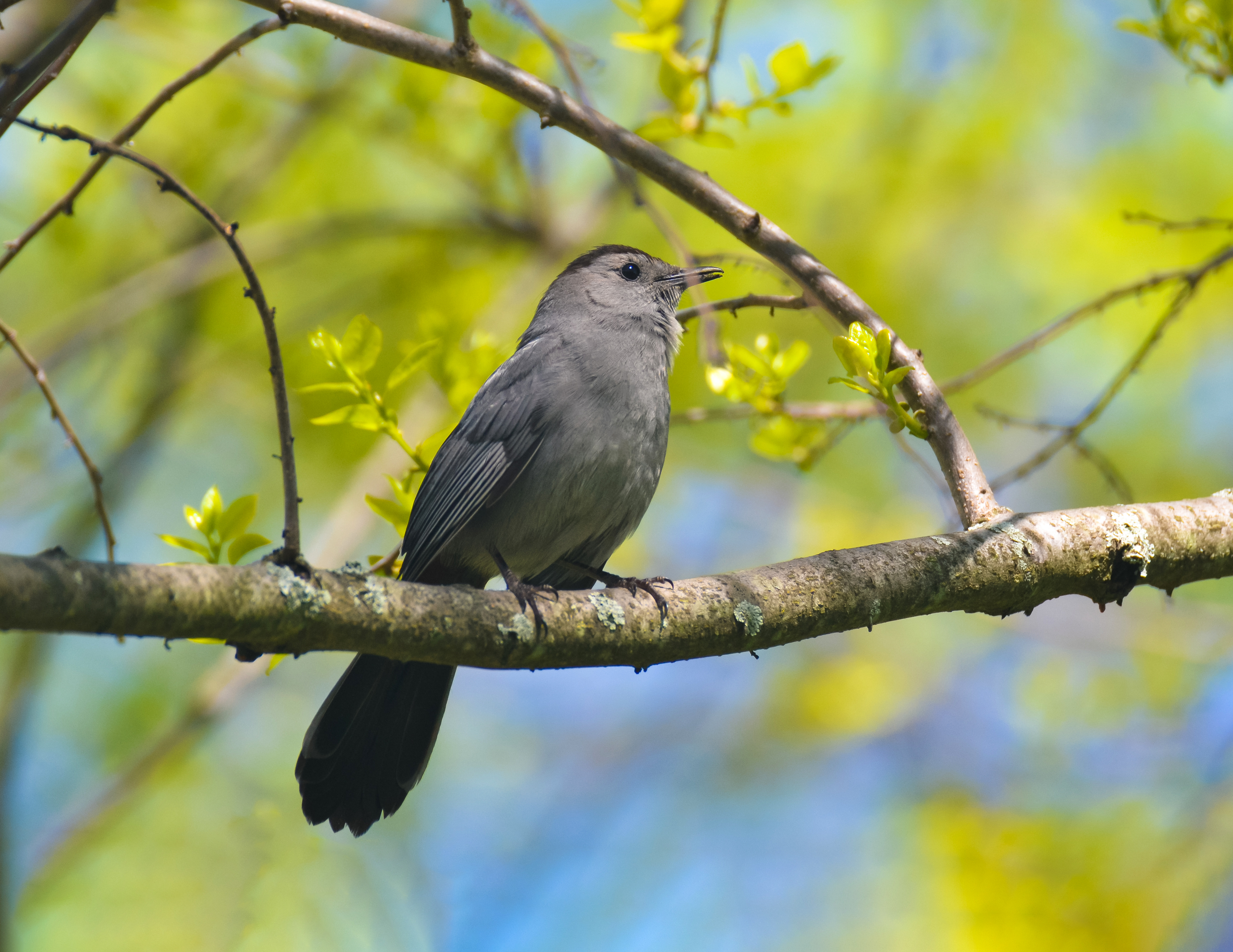 Photograph of a Gray Catbird (Dumetella carolinensis) at the Arnold Arboretum of Harvard University, Boston, Massachusetts, United States.